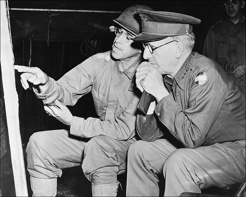 General Bradley as he is seen pointing out one of the maneuver situations to General McNair of the Third Army in Louisiana